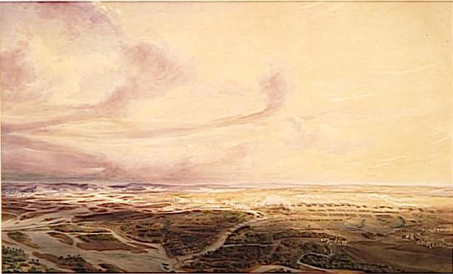 Battle of Wagram. Situation depicted at 8 AM, on July 5th. Having crossed the Danube early in the morning, from the great Lobau island (depicted in the centre-left of the picture), the French army deployed quickly and was able to begin pushing back the Austrian line, formed by Nordmann's Advance Guard.